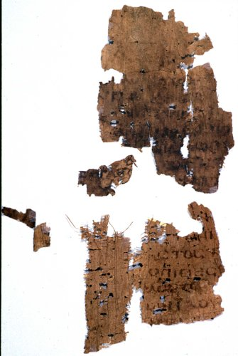 Papyrus 54; Jas 2:24,25; 3:2-4